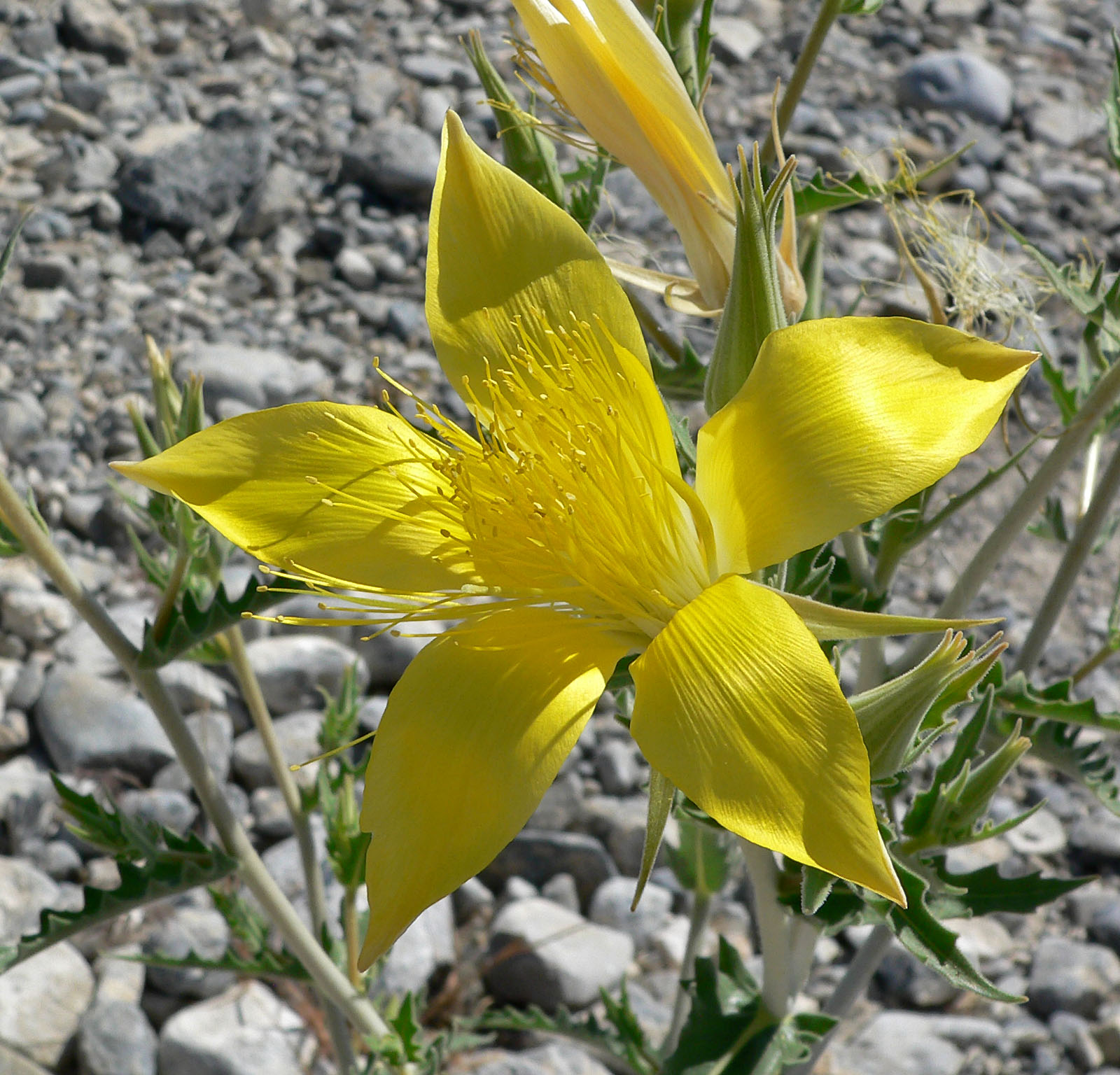 Mentzelia laevicaulis in Kyle Canyon, Spring Mountains, southern Nevada